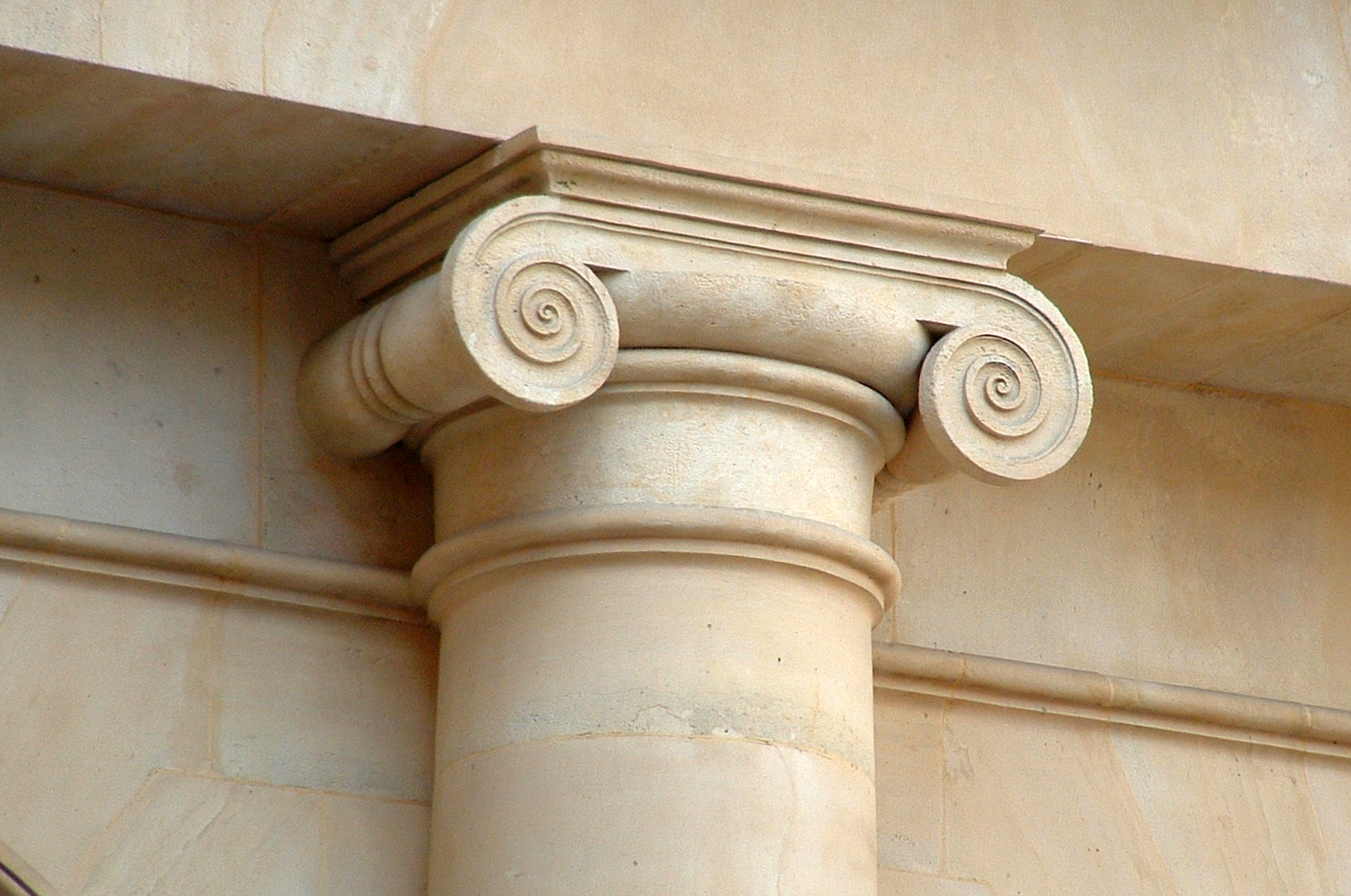 Modern ionic capital in Paris Descartes University main cour